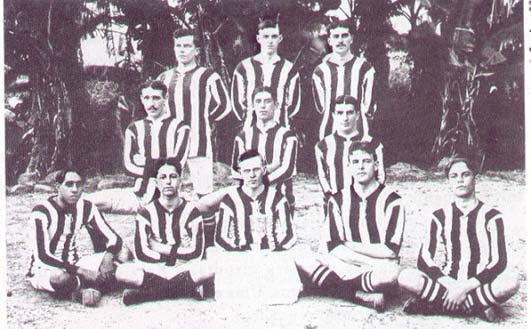 A Botafogo association football line-up.